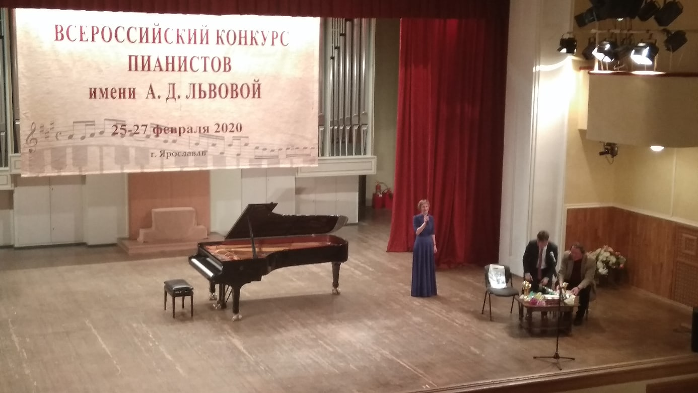 Фотография с балкона Ярославской Филармонии на церемонии награждения участников и закрытия Всероссийского конкурса пианистов имени Антонины Дмитриевны Львовой, который прошёл в Ярославле с 25-27 февраля 2020 года